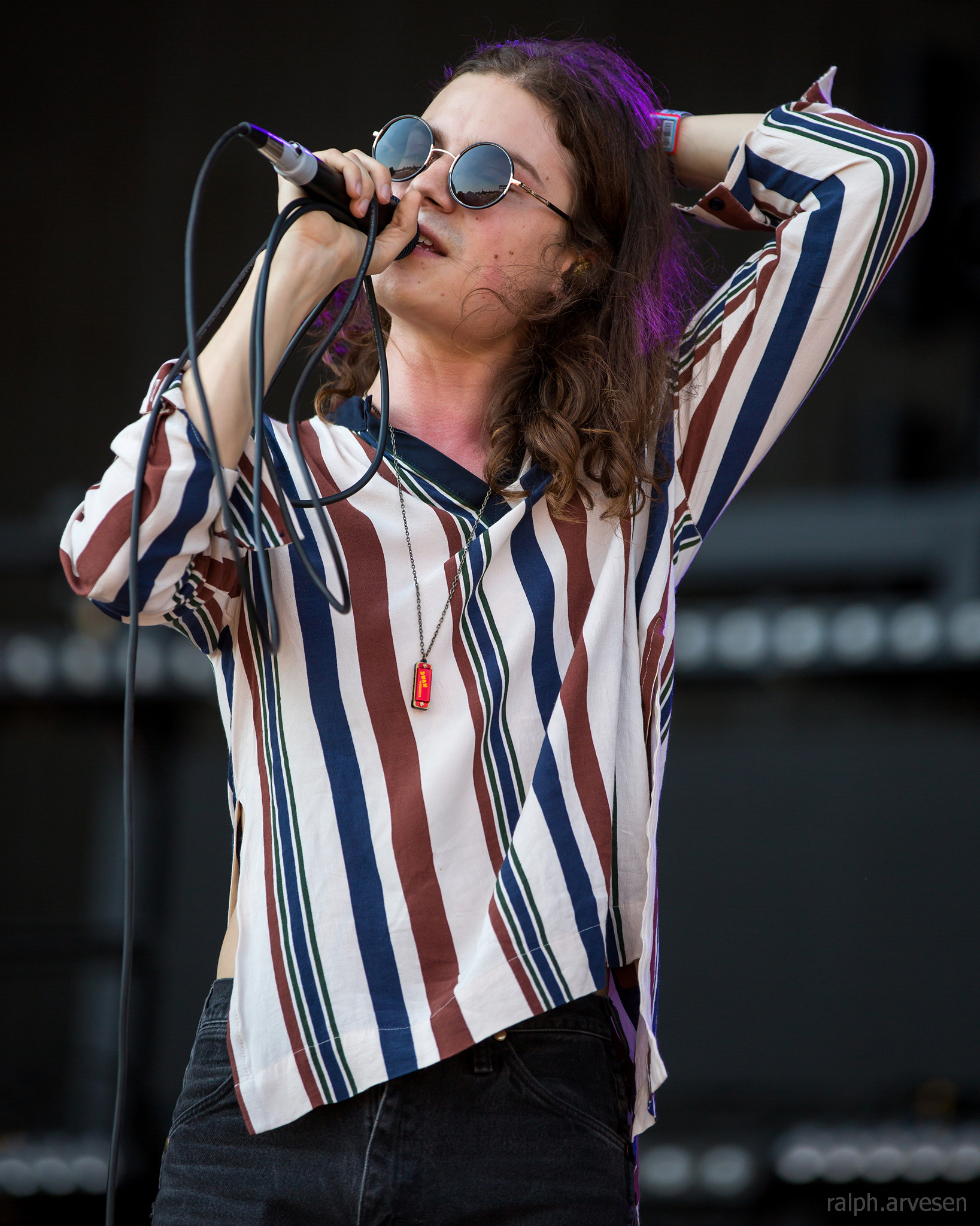 ACL Music Festival 2015 Overview (Austin, Texas, 2015-10) BØRNS. Austin City Limits Music Festival overview from Friday, October 9 through Sunday, October 11